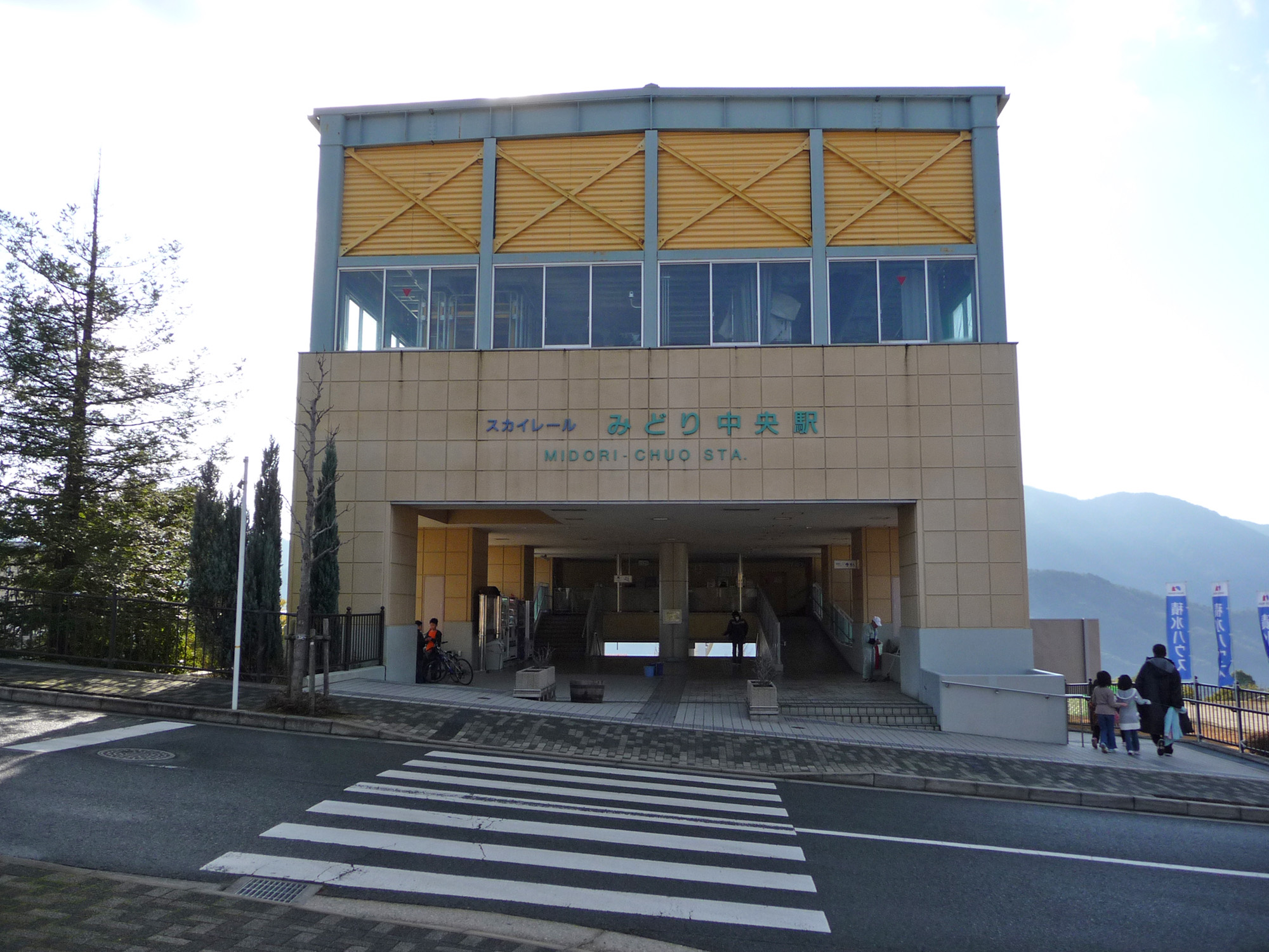 MIDORI-CHUO Station north entrance.